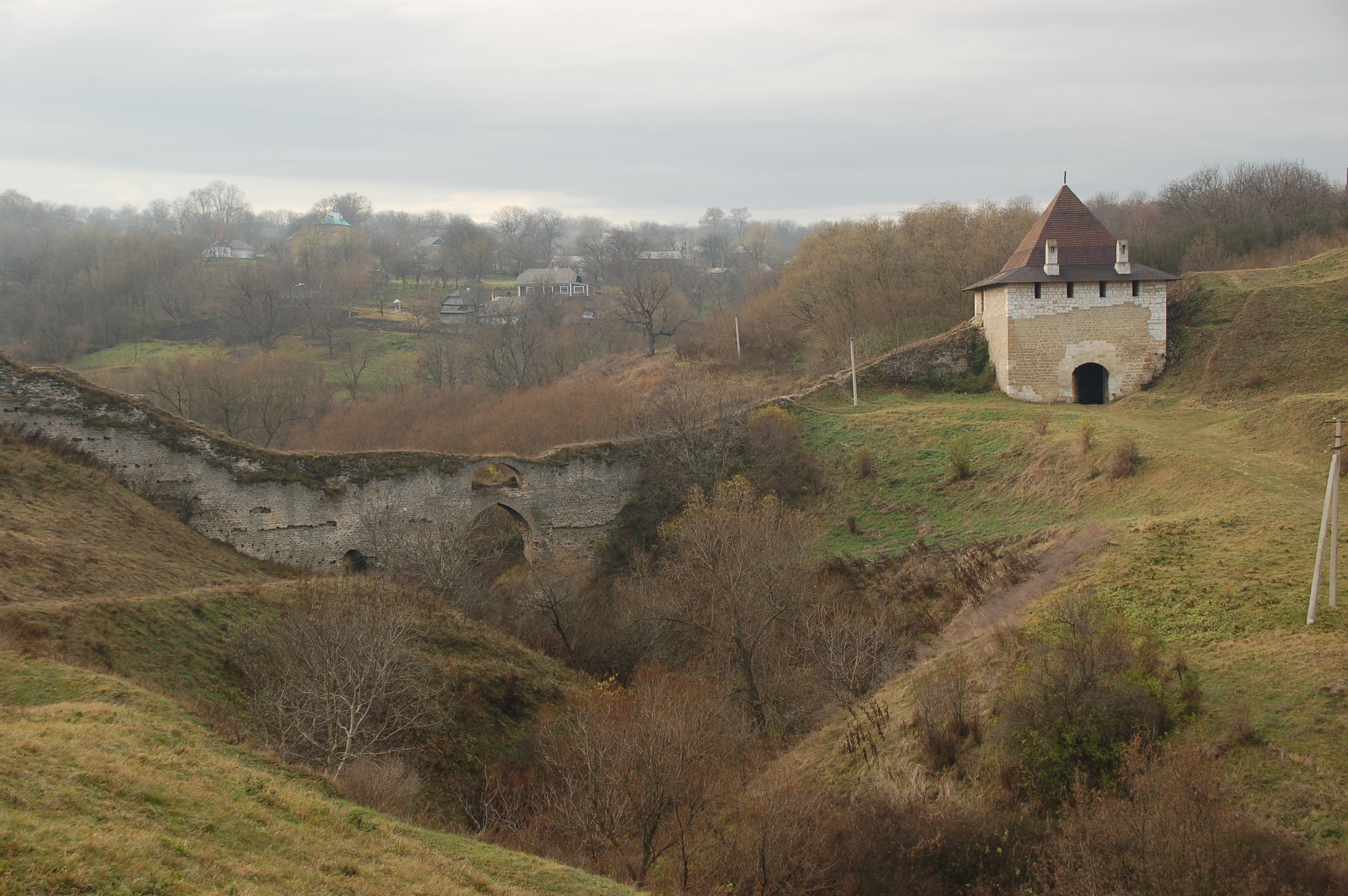 Ruins of a bridge next to the Khotyn fortress